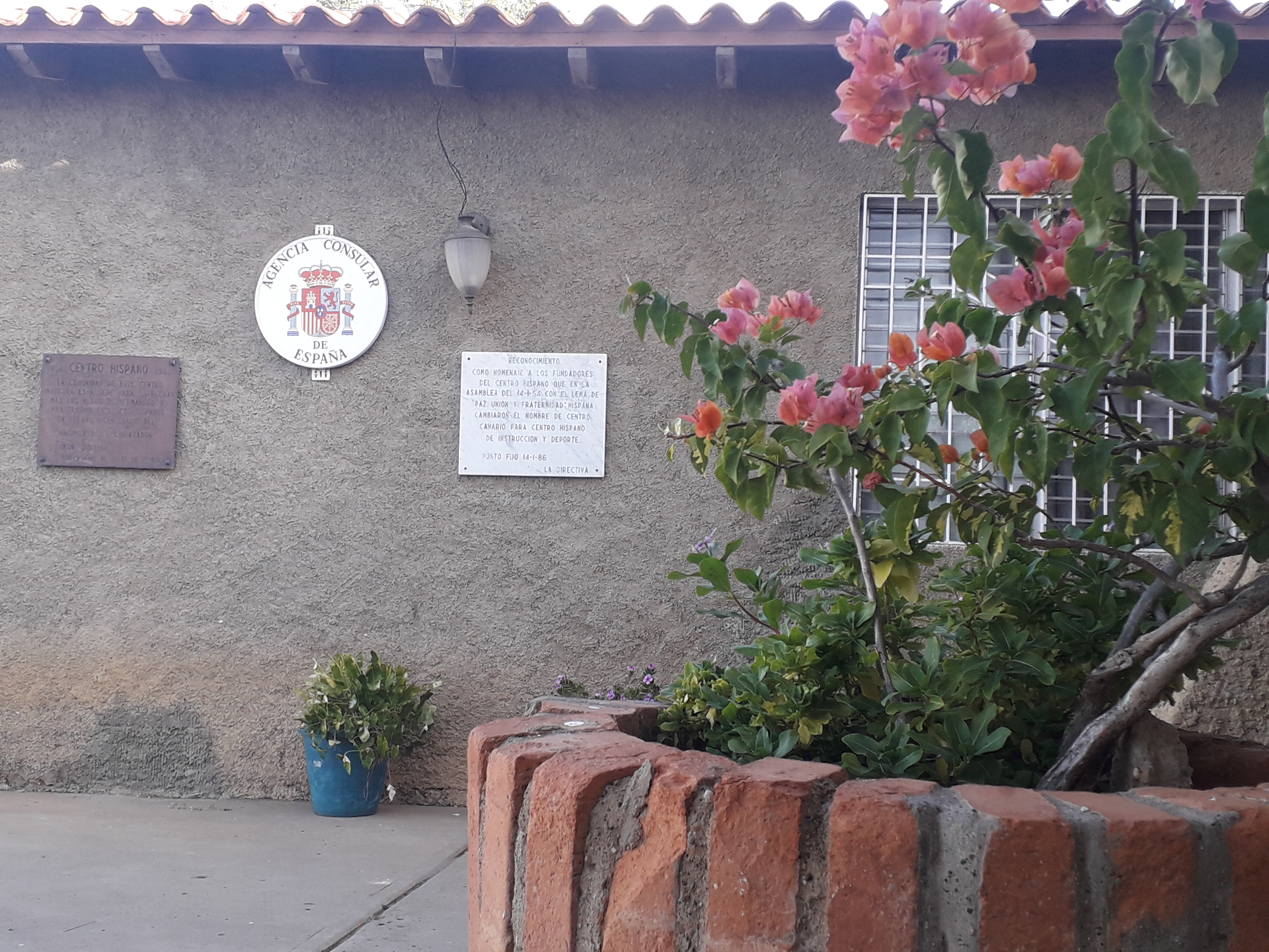 Consulate of Spain in Punto Fijo - Falcón - Venezuela